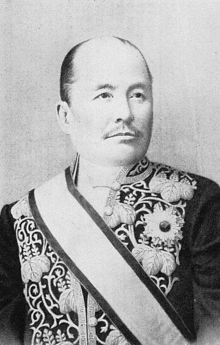 Noboru Watanabe (Viscount)